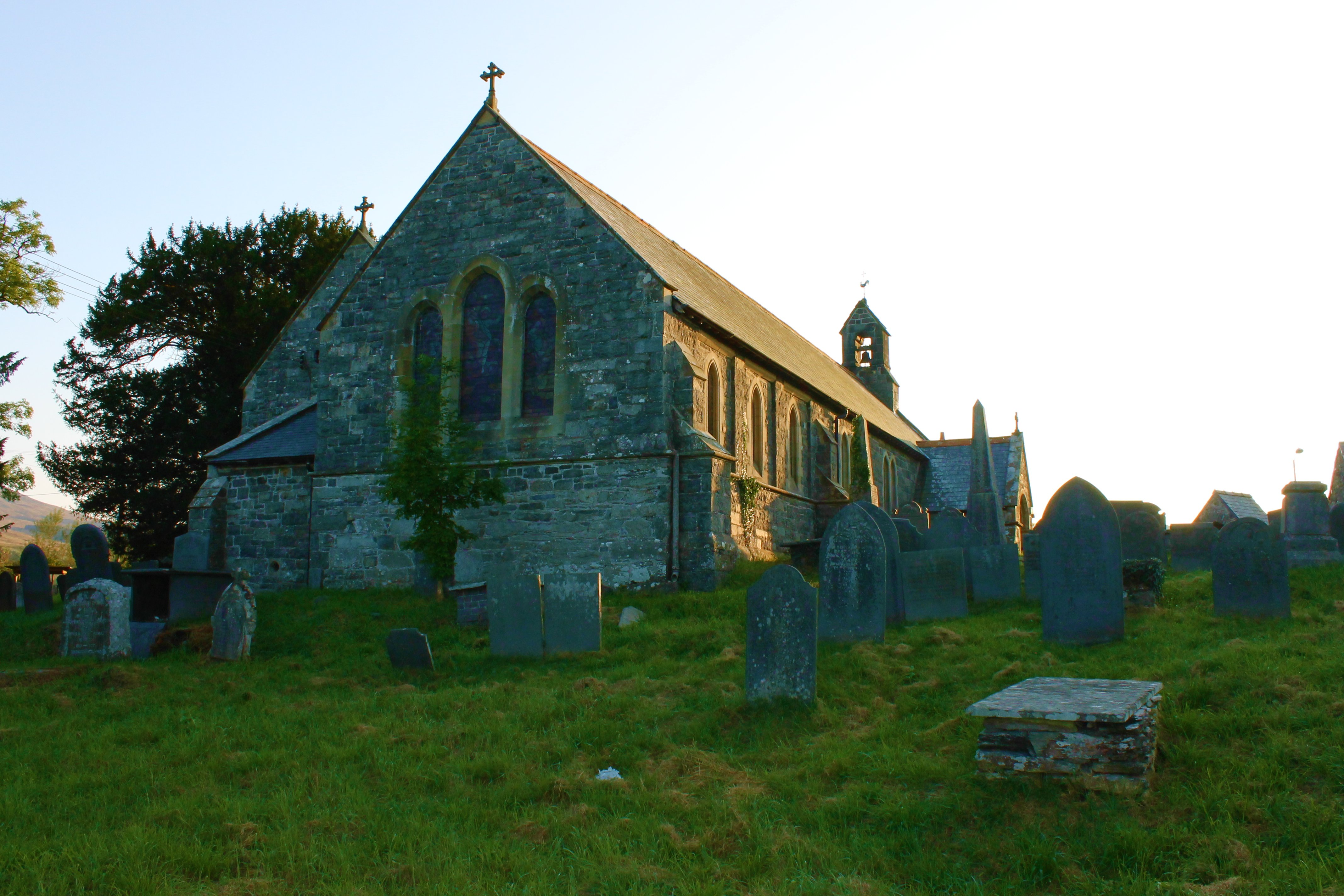 Parish Church of St Deiniol, Llanuwchllyn, Bala, Gwynedd, North Wales.